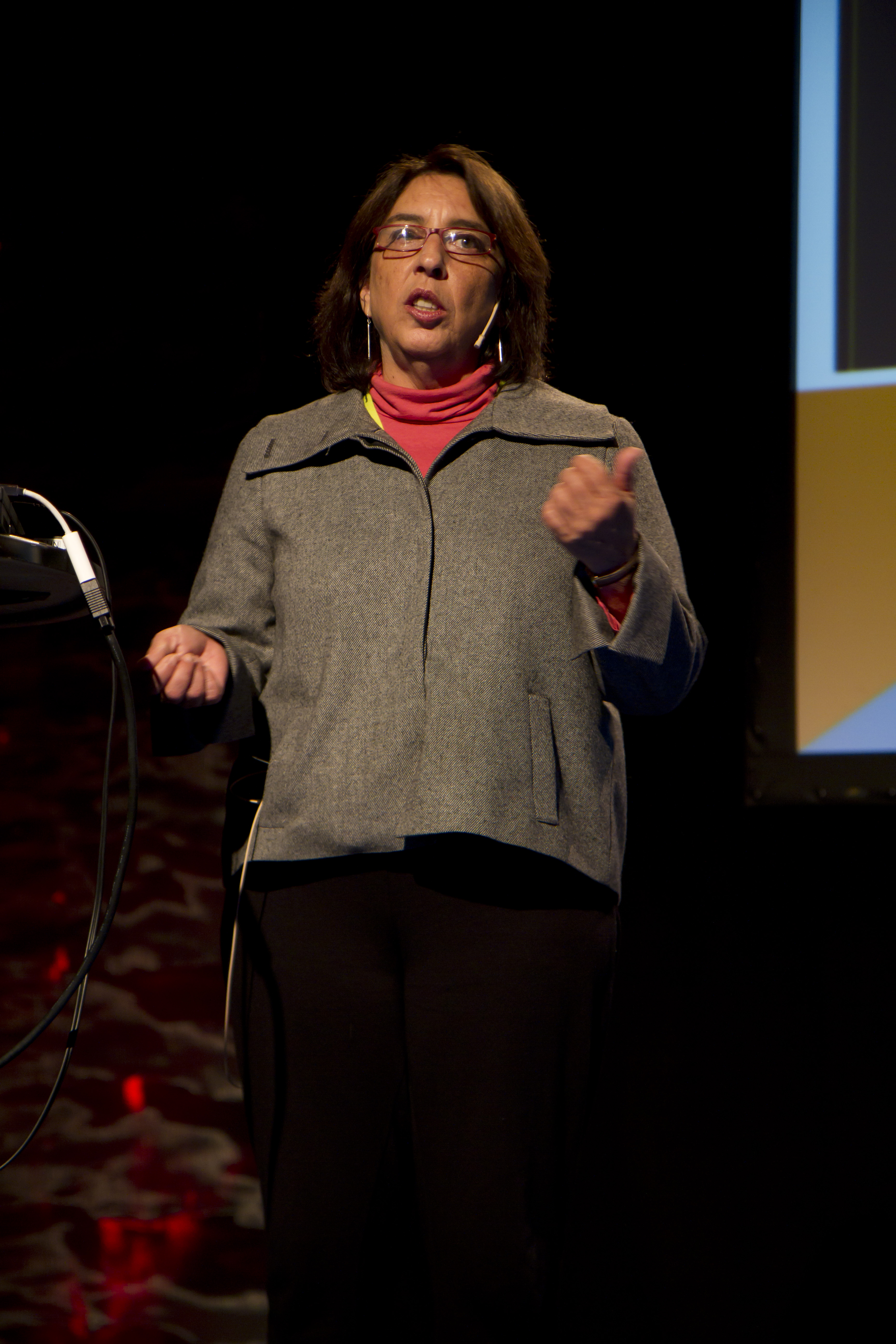 Foto: Magnus Munthe-Dahl